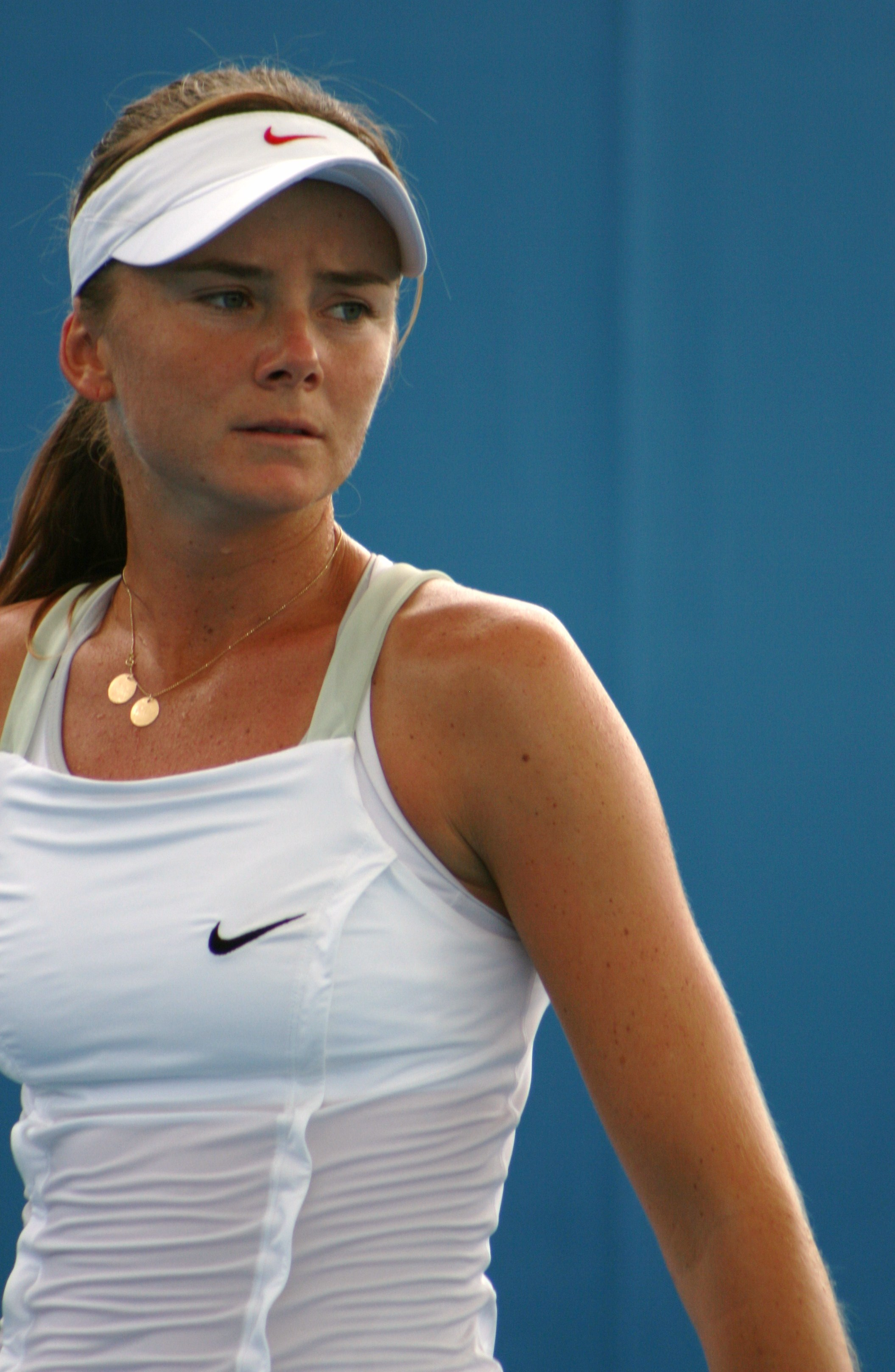 Daniela Hantuchováa at the 2009 Brisbane International